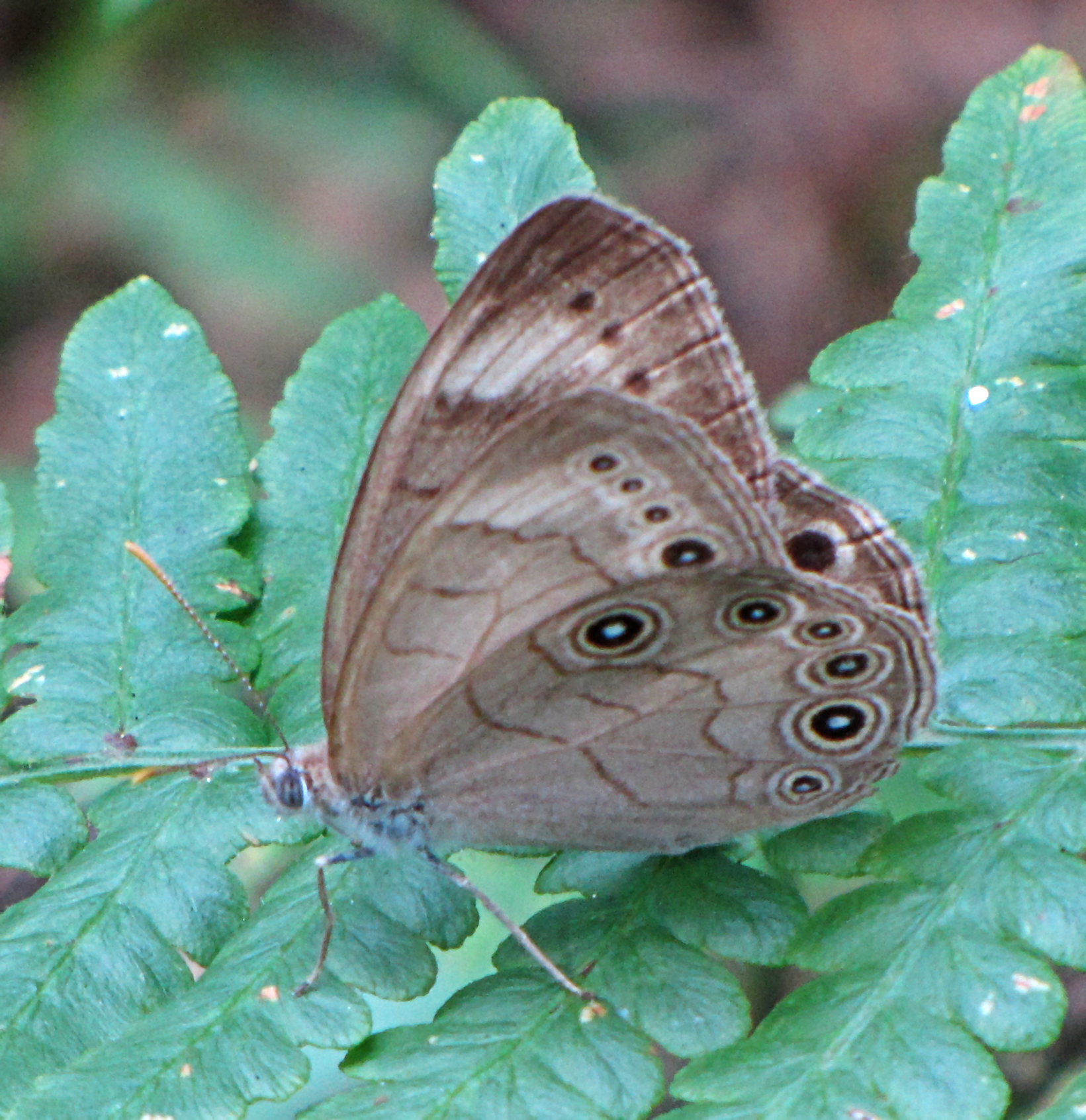 Eyed Brown (Satyrodes eurydice), Mer Bleue Conservation Area, Ottawa, Ontario